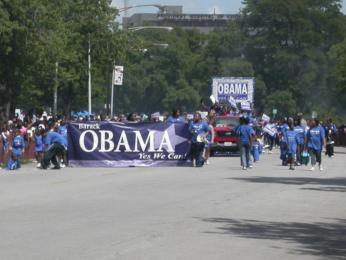 Bud Billiken Parade and Picnic Barack Obama float Provident Hospital in the background.